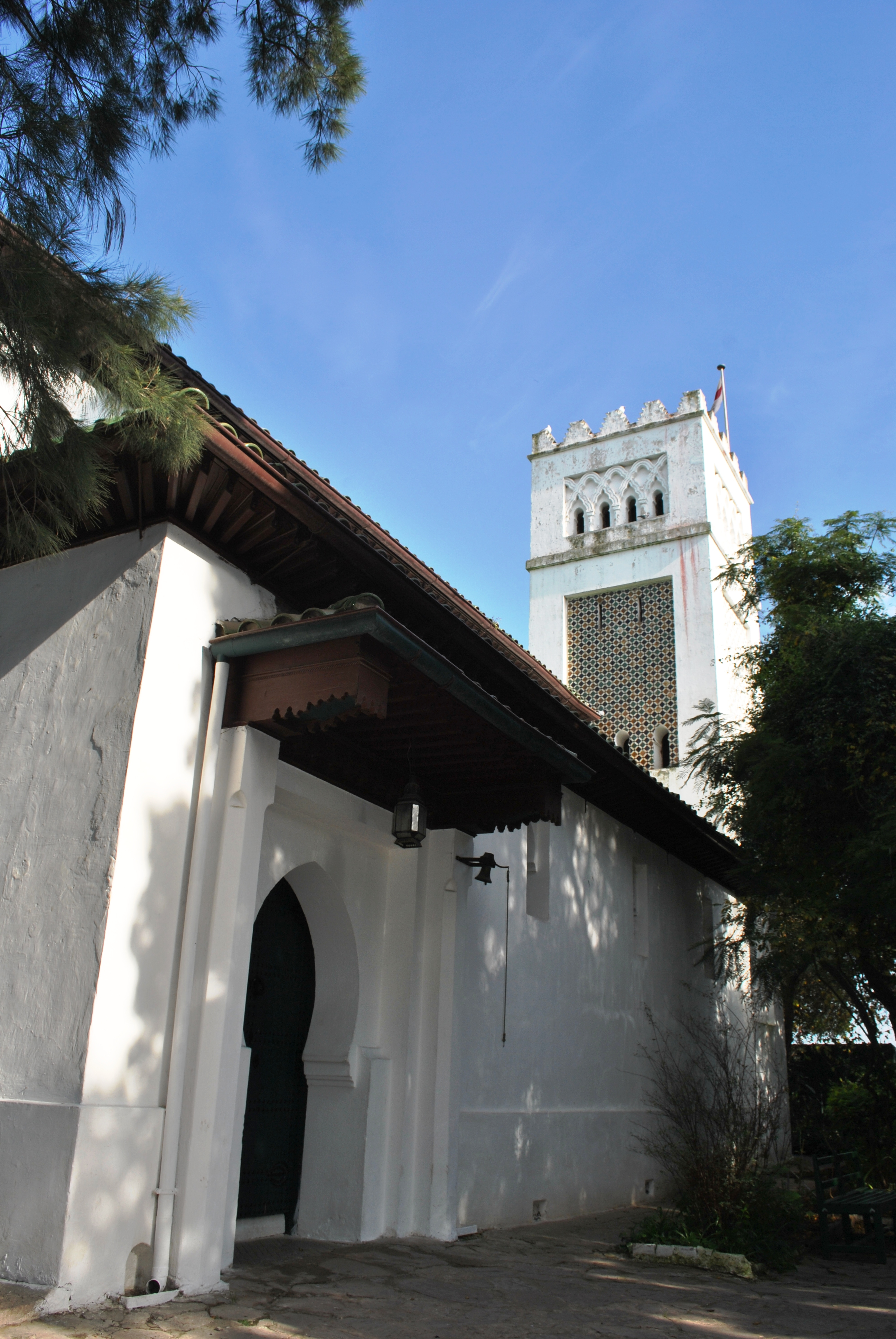 Image originally published in Queer Places: Retracing the Steps of LGBTQ people around the World Authored by Elisa Rolle